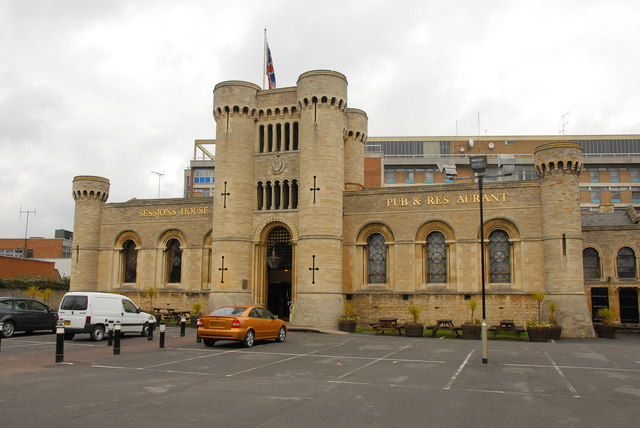 Sessions House, Thorpe Road, Peterborough The Sessions House was built in 1842 as part of Peterborough Gaol. The architect was WJ Donthorne. It is now a bar and restaurant. Peterborough District Hospital is in the background.